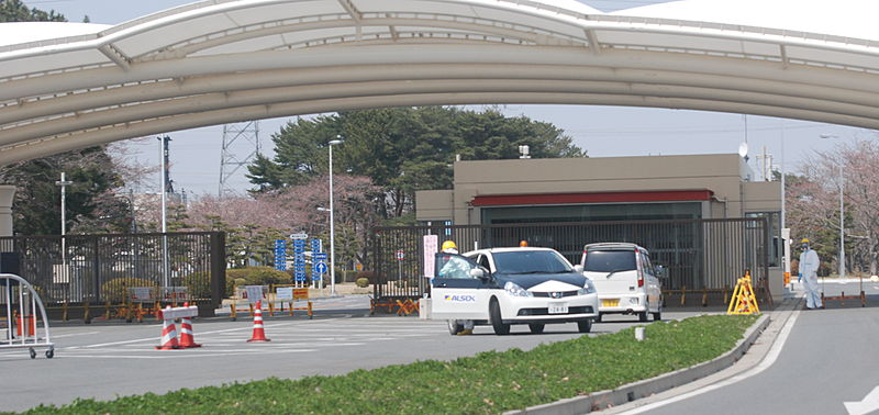 Wider view of the main gate of the Fukushima-1nuclear power plant, April 13, 2011 (VOA Photo S. Herman)